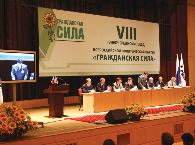 VIII congress Russian political party Civilian Power, 23 September 2007